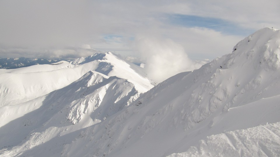 Krúpova hoľa from Chopok